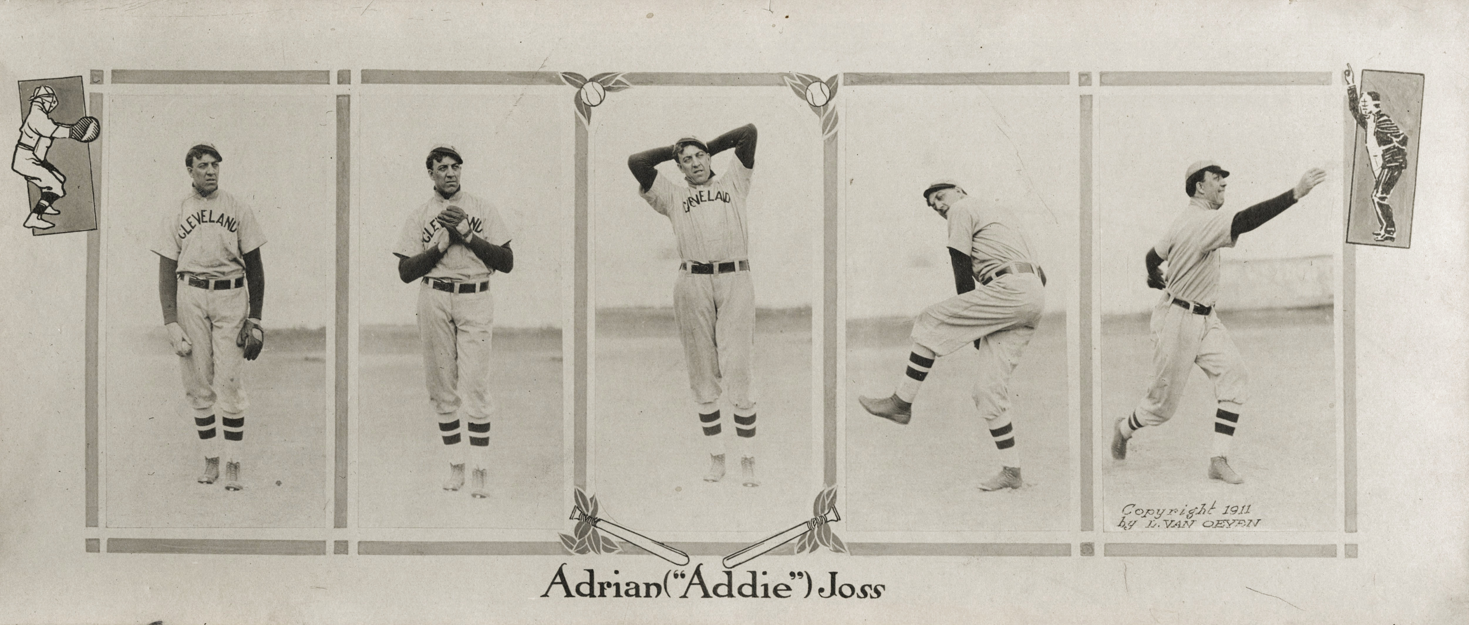 Addie Joss pitching in 5 frames